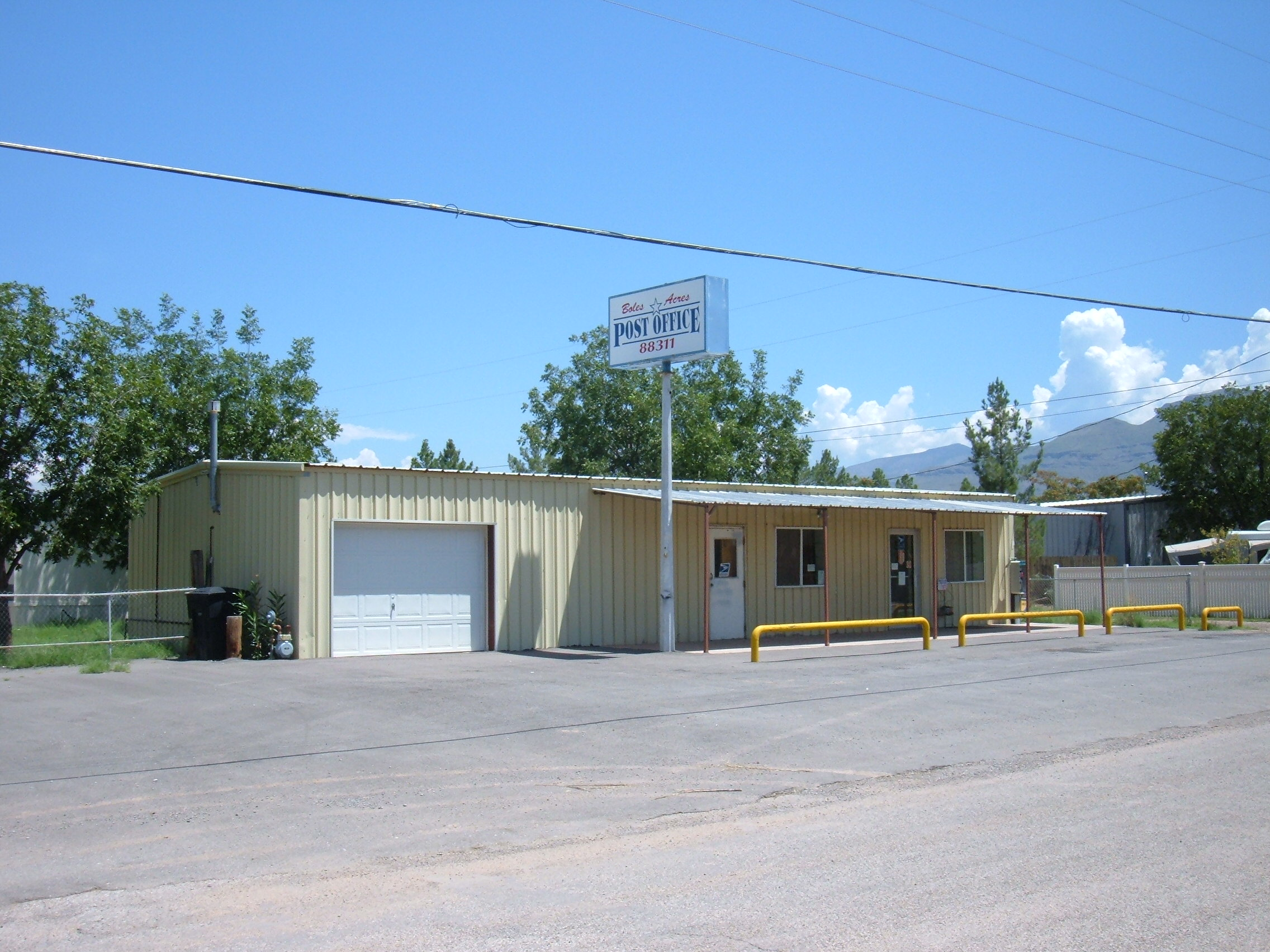 Boles Acres Post Office building, located at 20 Suzy Ann Street in Boles Acres, New Mexico